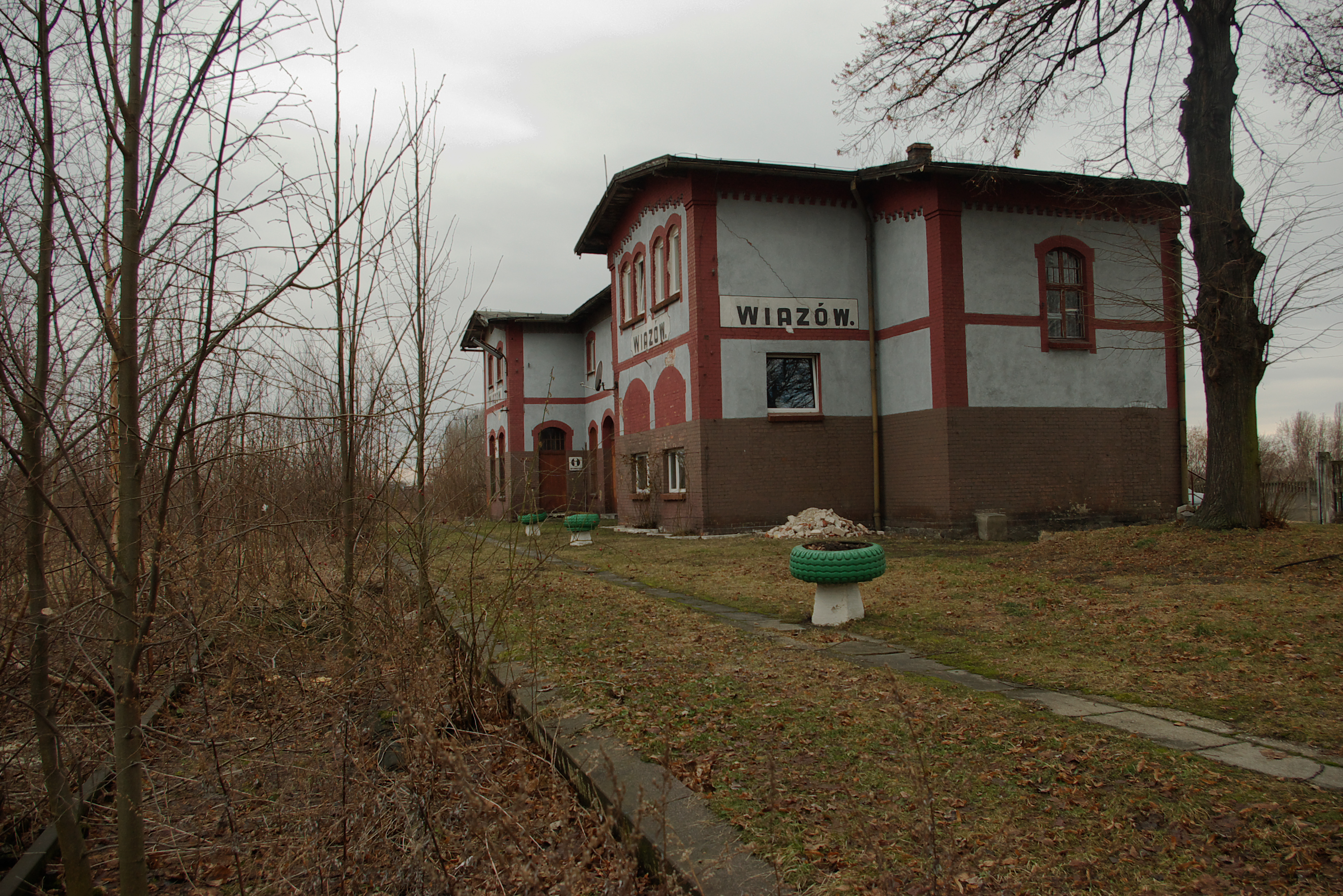 Disused railway station in Wiązów, Lower Silesia, Poland. Currently a house.